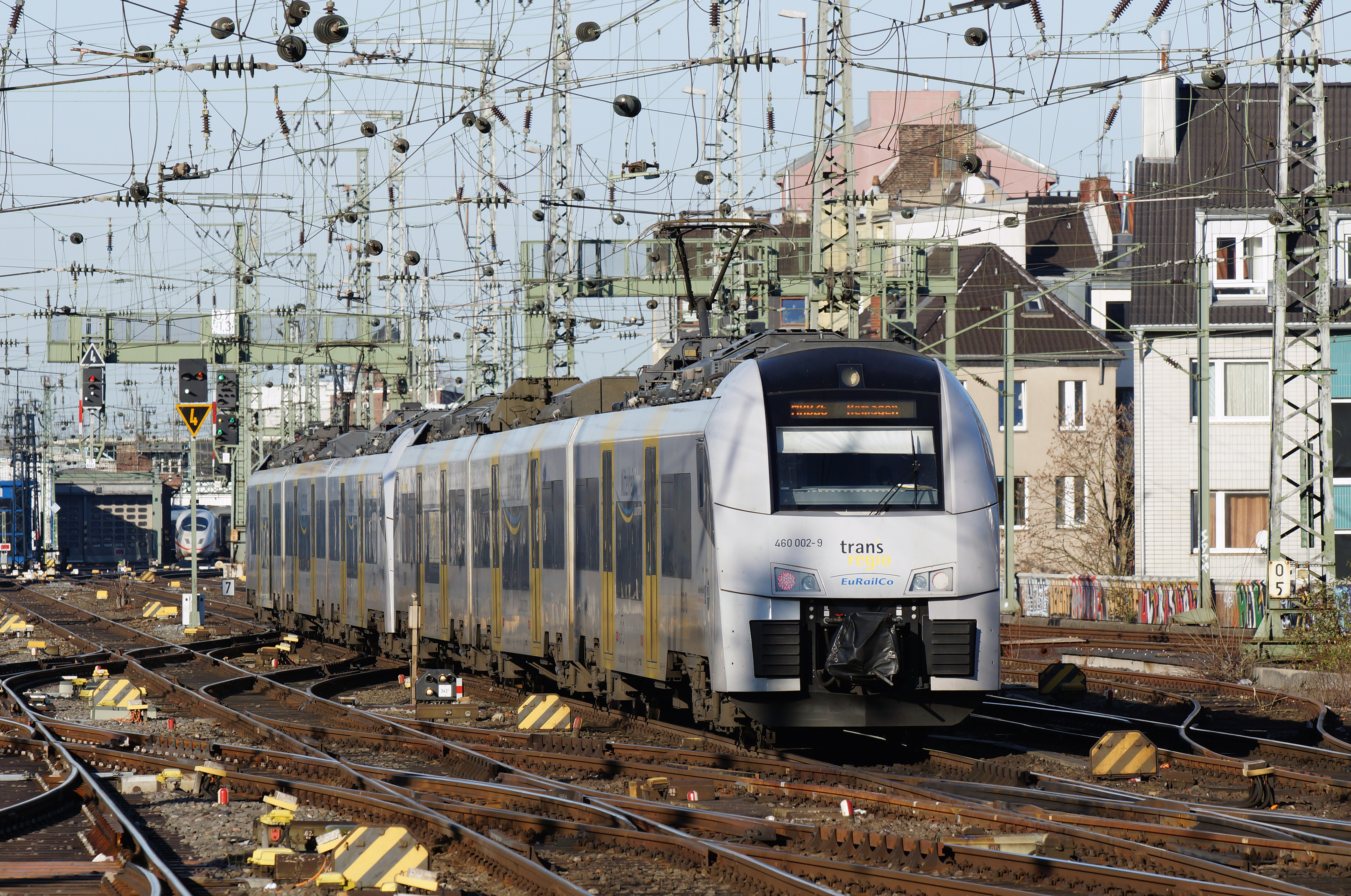 Siemens Desiro Mainline 460 002-9 in the near of Cologne main station.